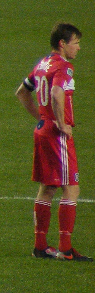 Brian McBride in action for Chicago